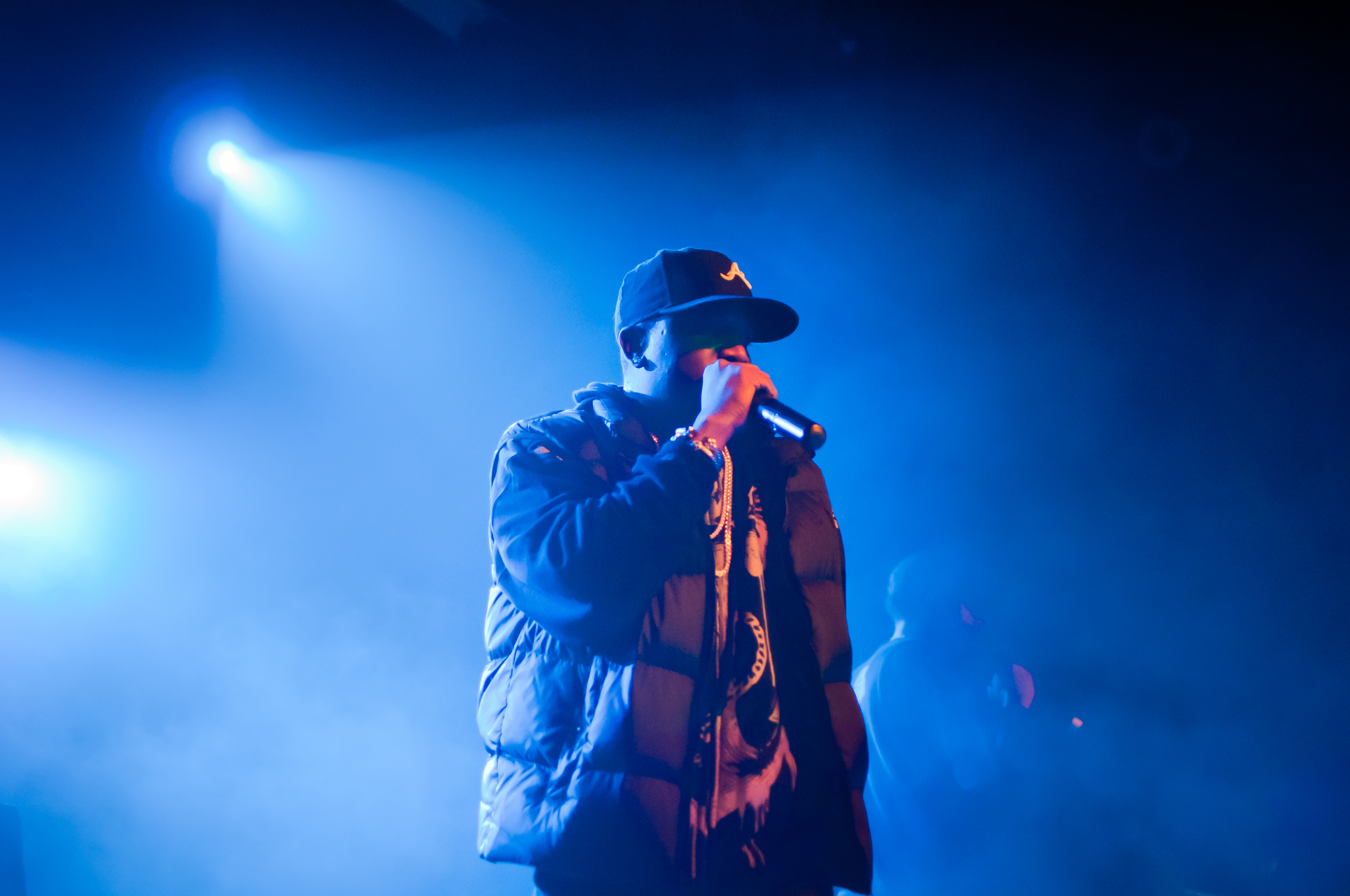 Big Boi performing at Fri-Son in Fribourg, Switzerland.